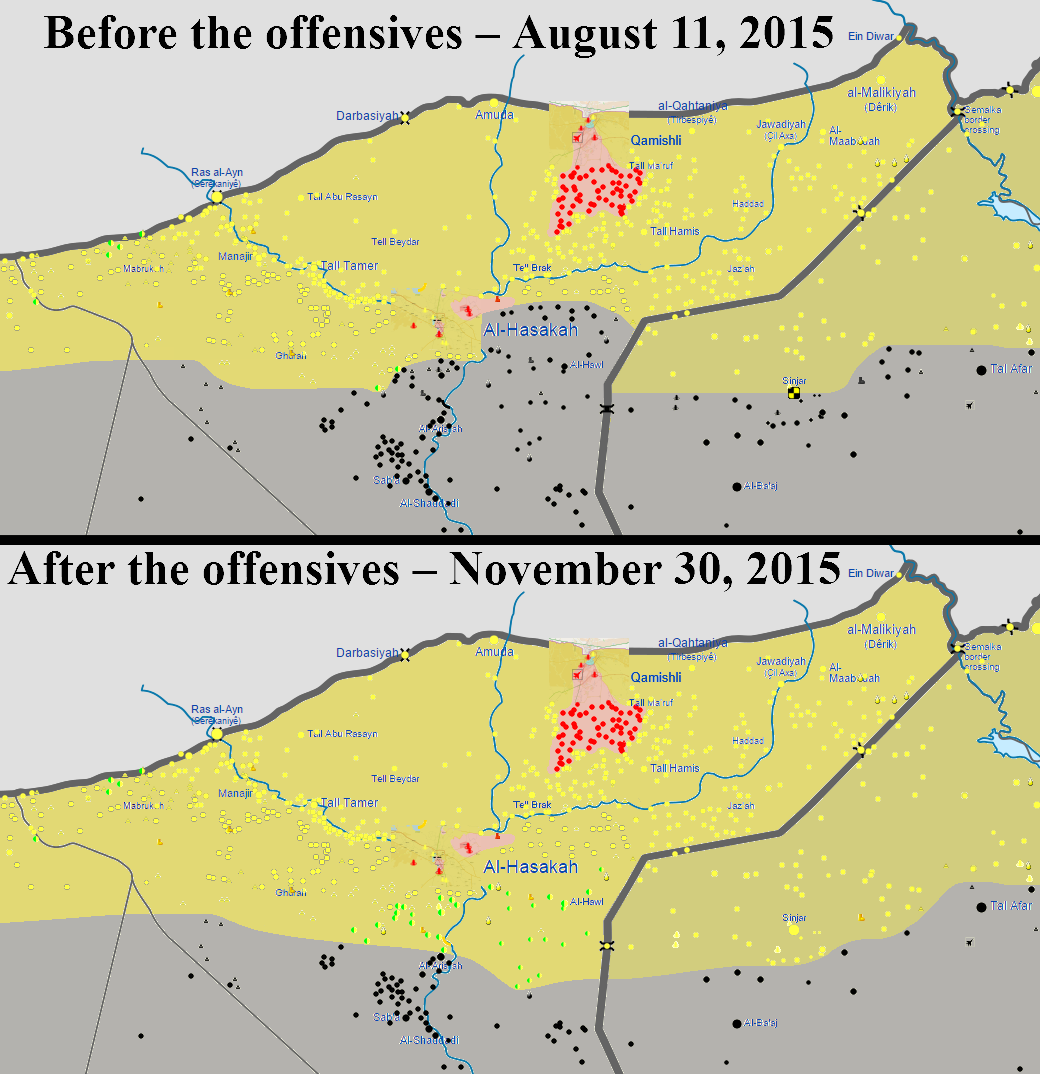 Map of the territorial changes during the concurrent Al-Hawl offensive and November 2015 Sinjar offensive.